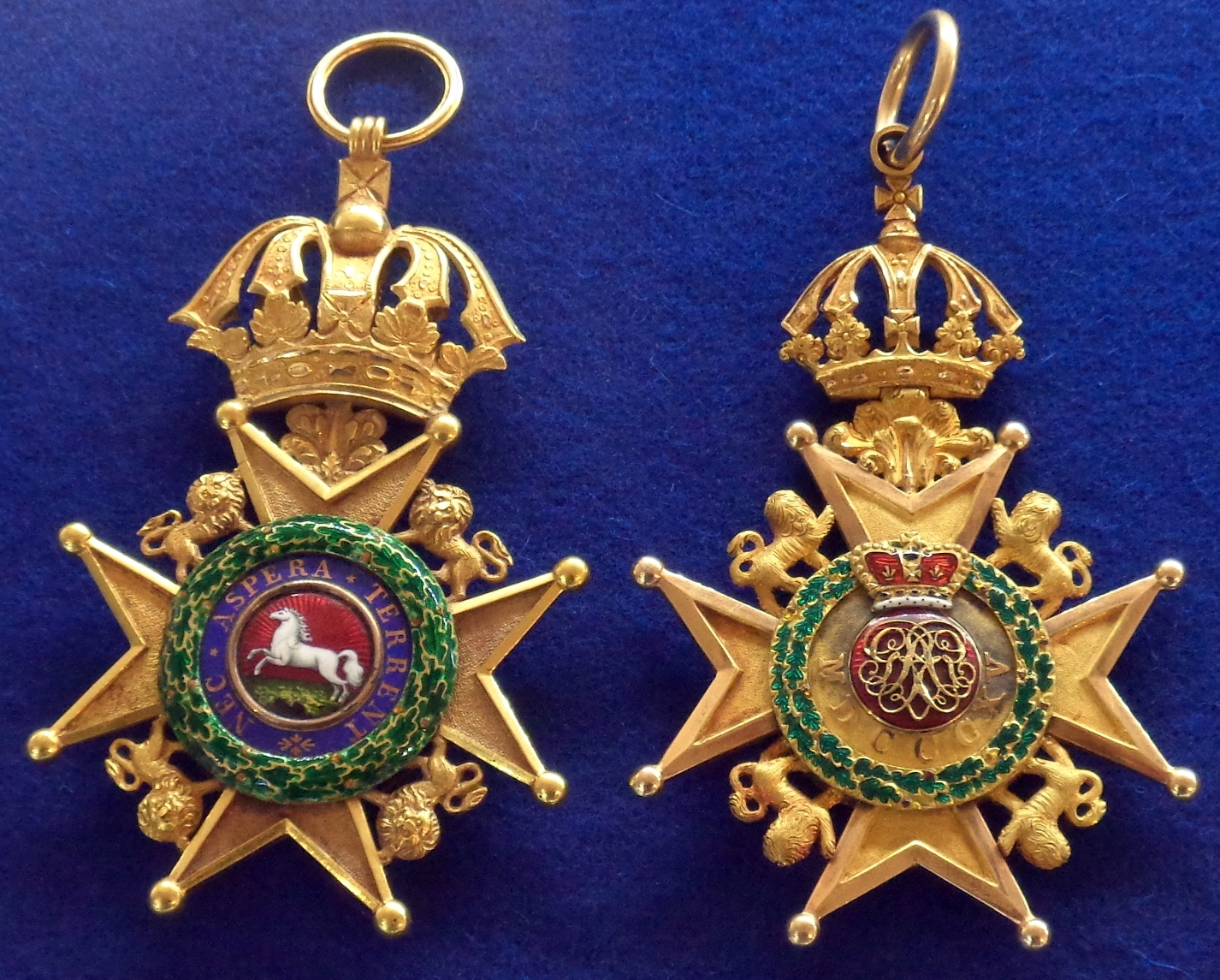 Royal Guelphic Order, badge obverse-reverse. Kingdom of Hannover. The exhibition of the Tallinn Museum of Orders of Knighthood, Estonia.